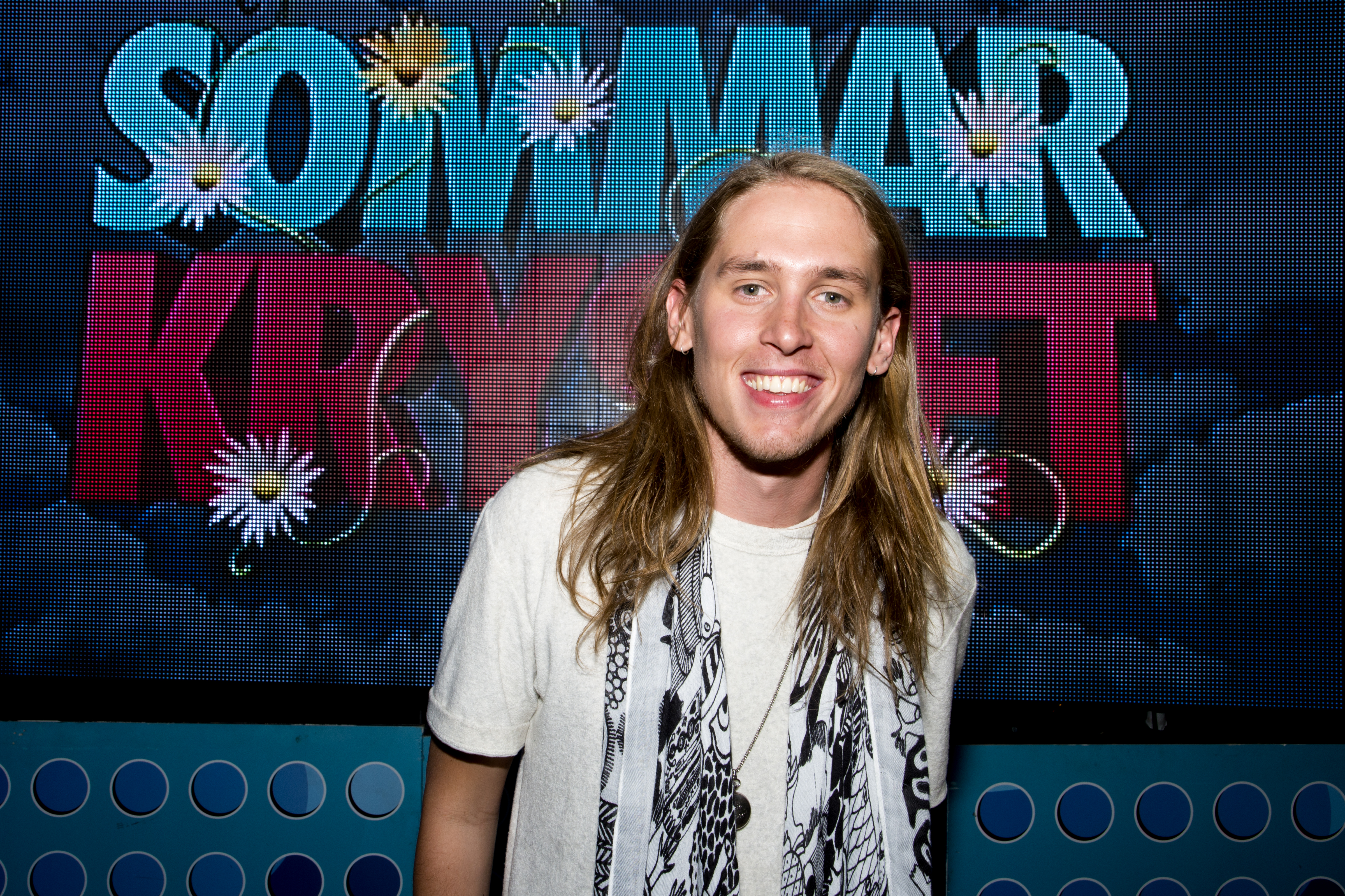 Thomas Stenström visit Sommarkrysset at Gröna Lund in Stockholm